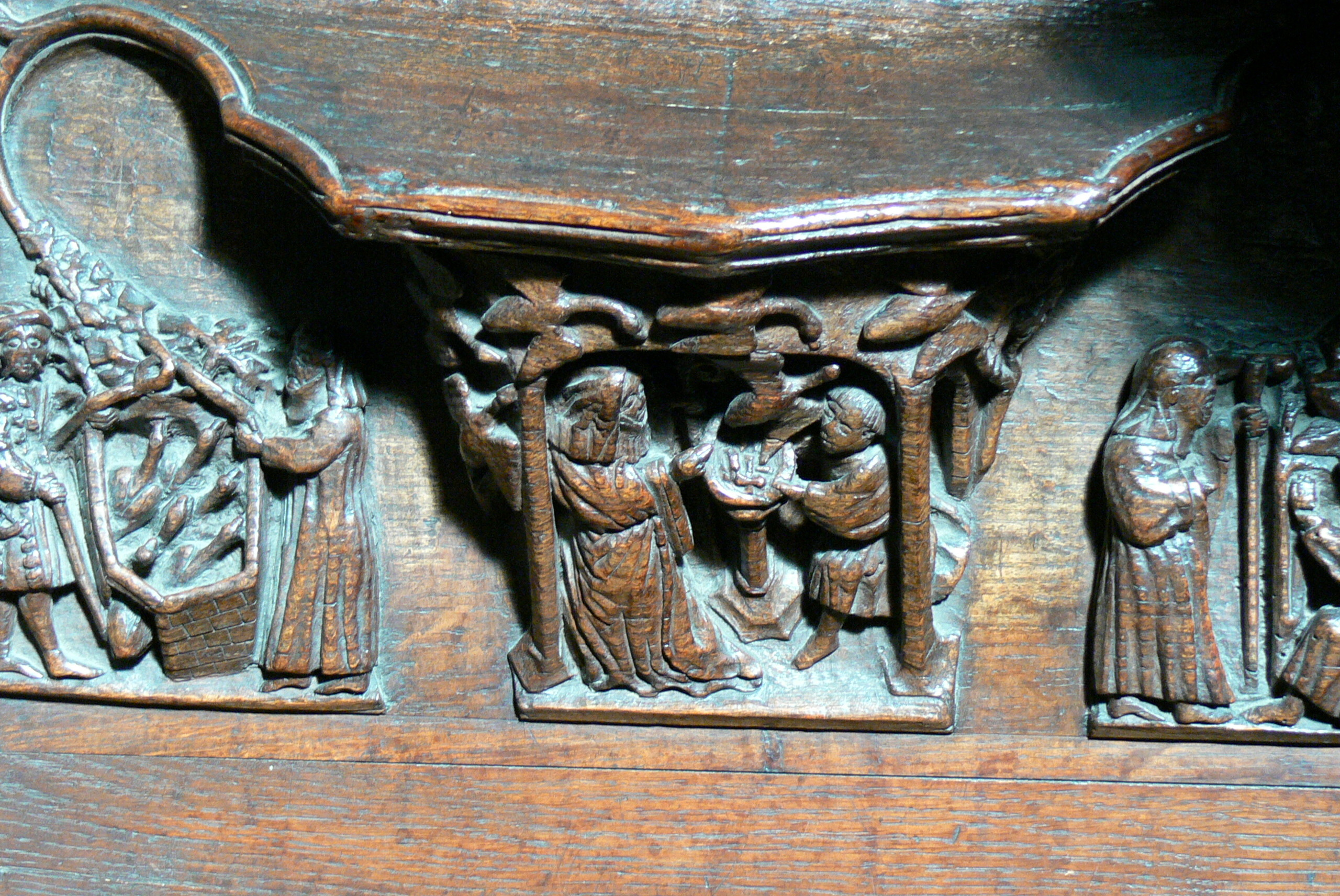 Chester ( England ). Cathedral: Choir stalls ( 1380 ) - Misericord probaby showing the hen miracle in Santo Domingo de la Calzada ( Spain ).